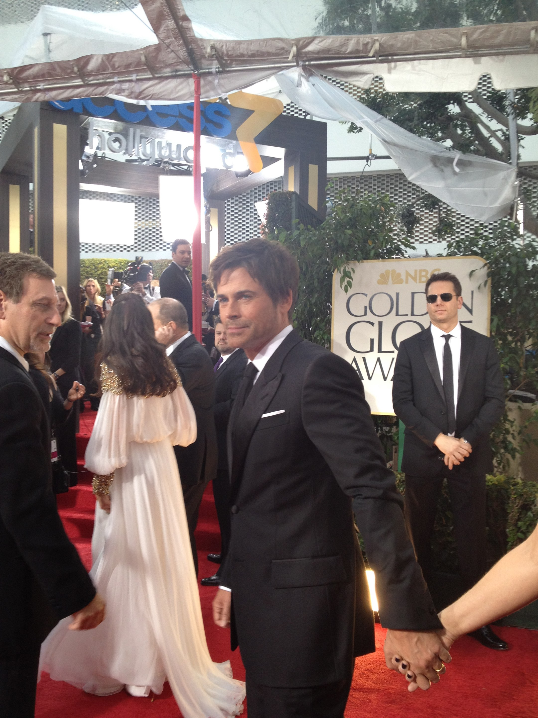 69th Annual Golden Globes Awards.